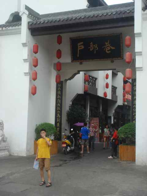 Hubu Xiang Entrance